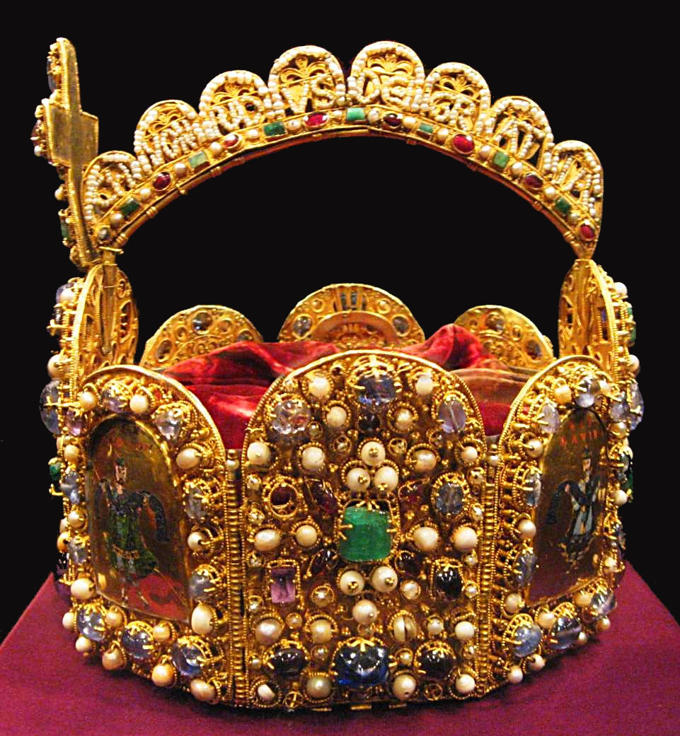 cleaned up version of earlier photo Description